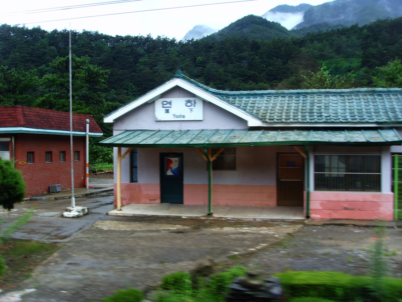 Taebaek Line Yeonha Station